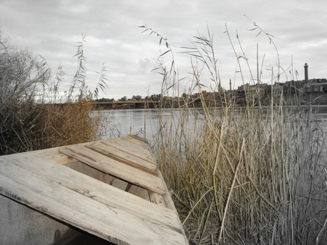 Photo of Hit Iraq